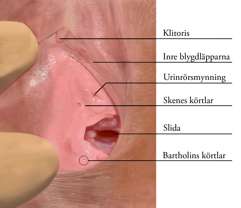 Skenes and Bartholin's glands. (Swedish translation of an image uploaded to the English Wikipedia.)